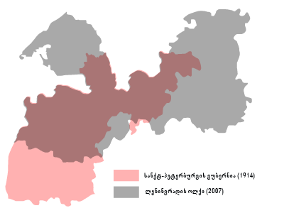 Comparisson of Leningrad oblast and Saint Petersburg guberniya